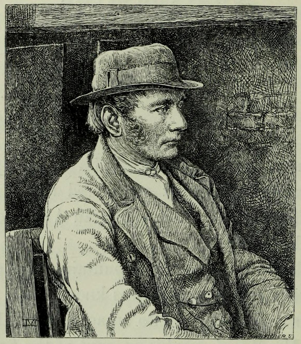 Image on page 414 of Scrambles amongst the Alps